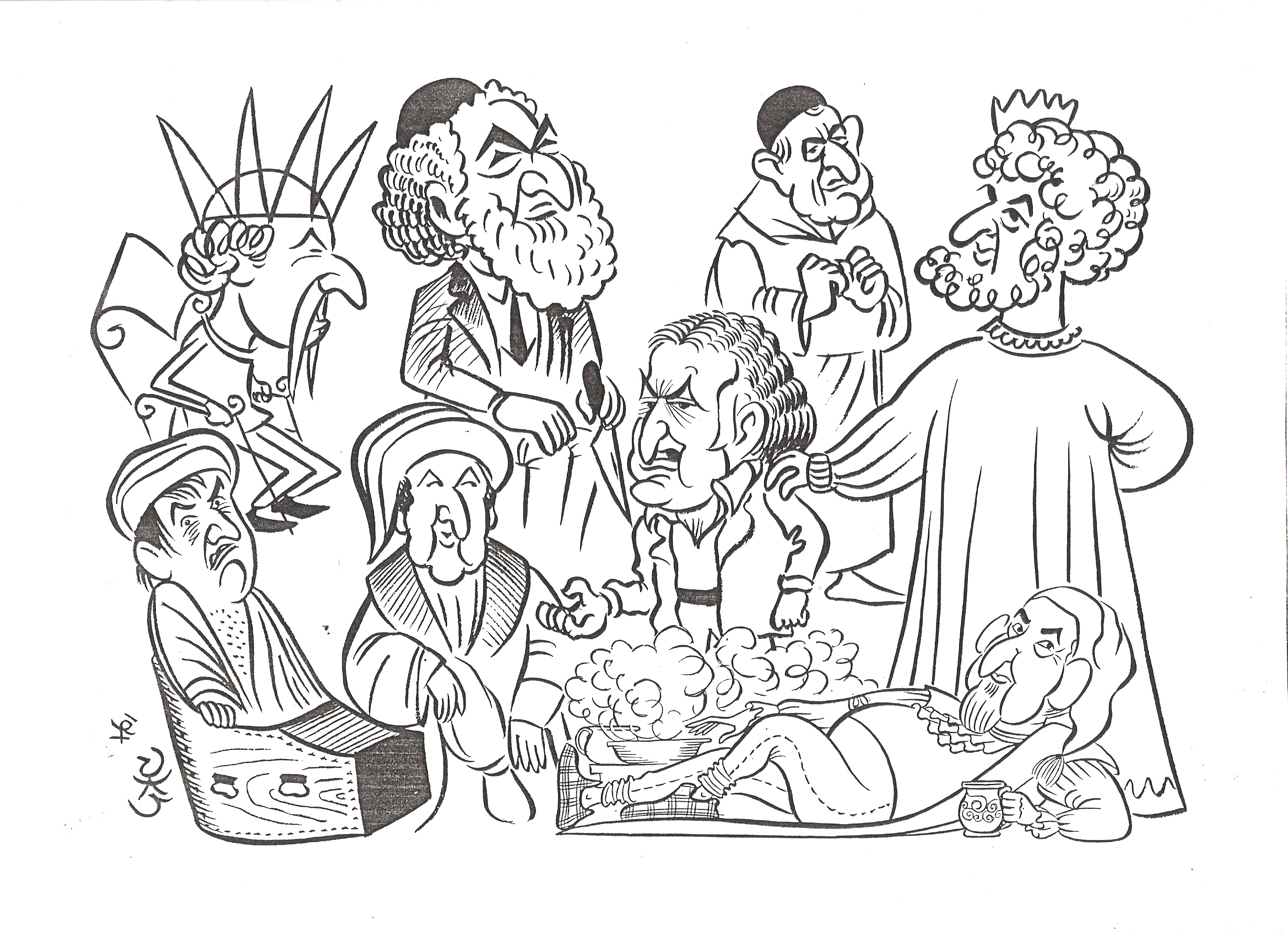 Avner Chiskiyahu by Zeev